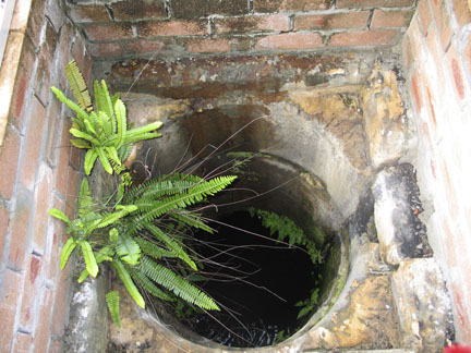 Mouth of intact silo